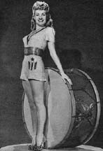 Pin-up photo of Betty Grable for the Jun. 25, 1943 issue of Yank, the Army Weekly, a weekly U.S. Army magazine fully staffed by enlisted men.